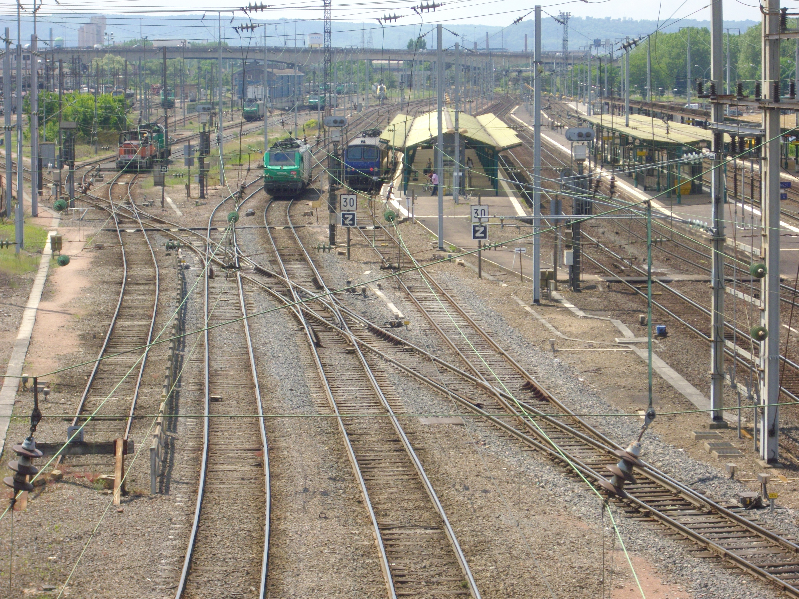 Train station of Thionville (Moselle, France)